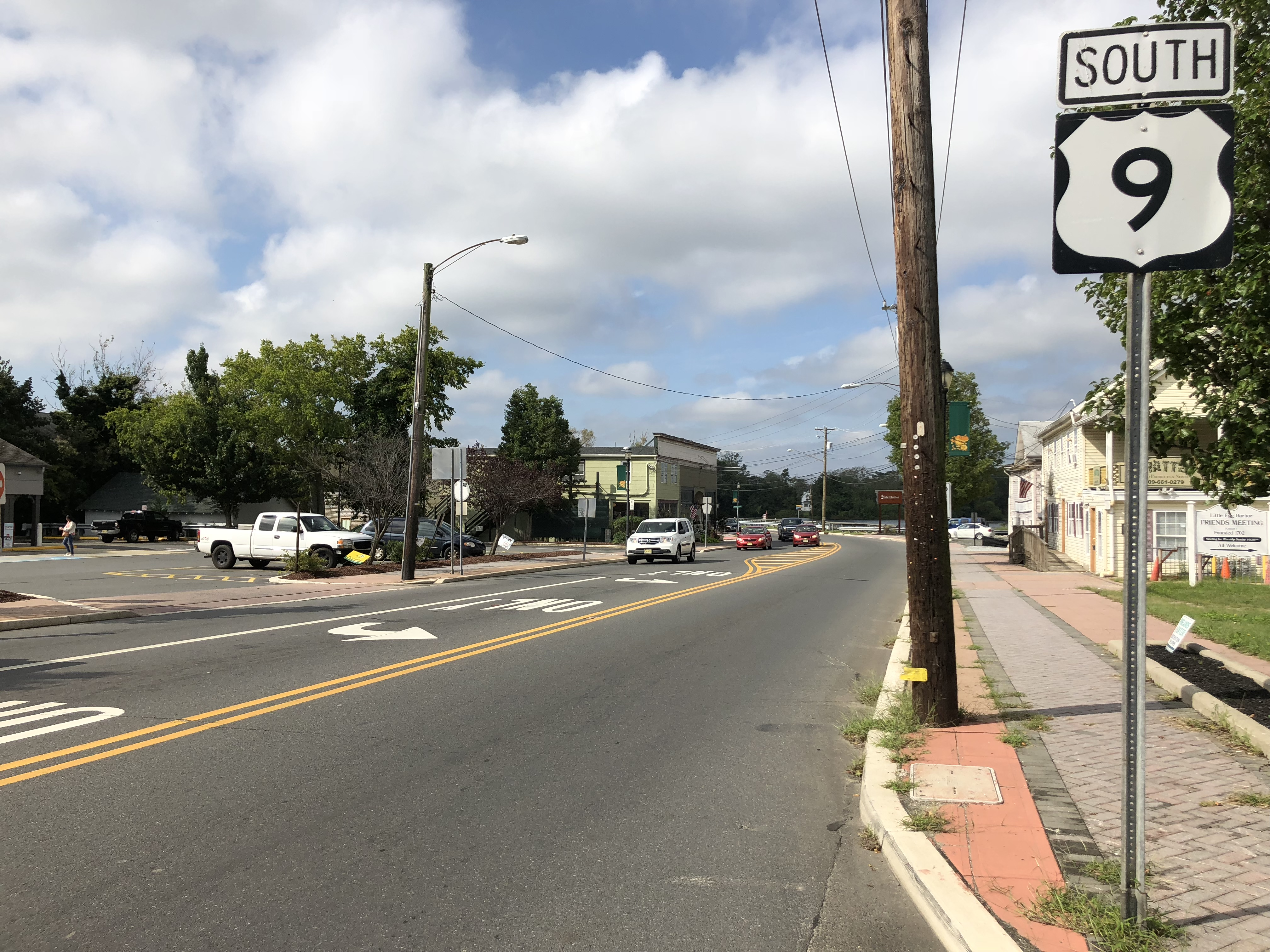 View south along U.S. Route 9 (Main Street) just south of Ocean County Route 539 (Green Street) in Tuckerton, Ocean County, New Jersey